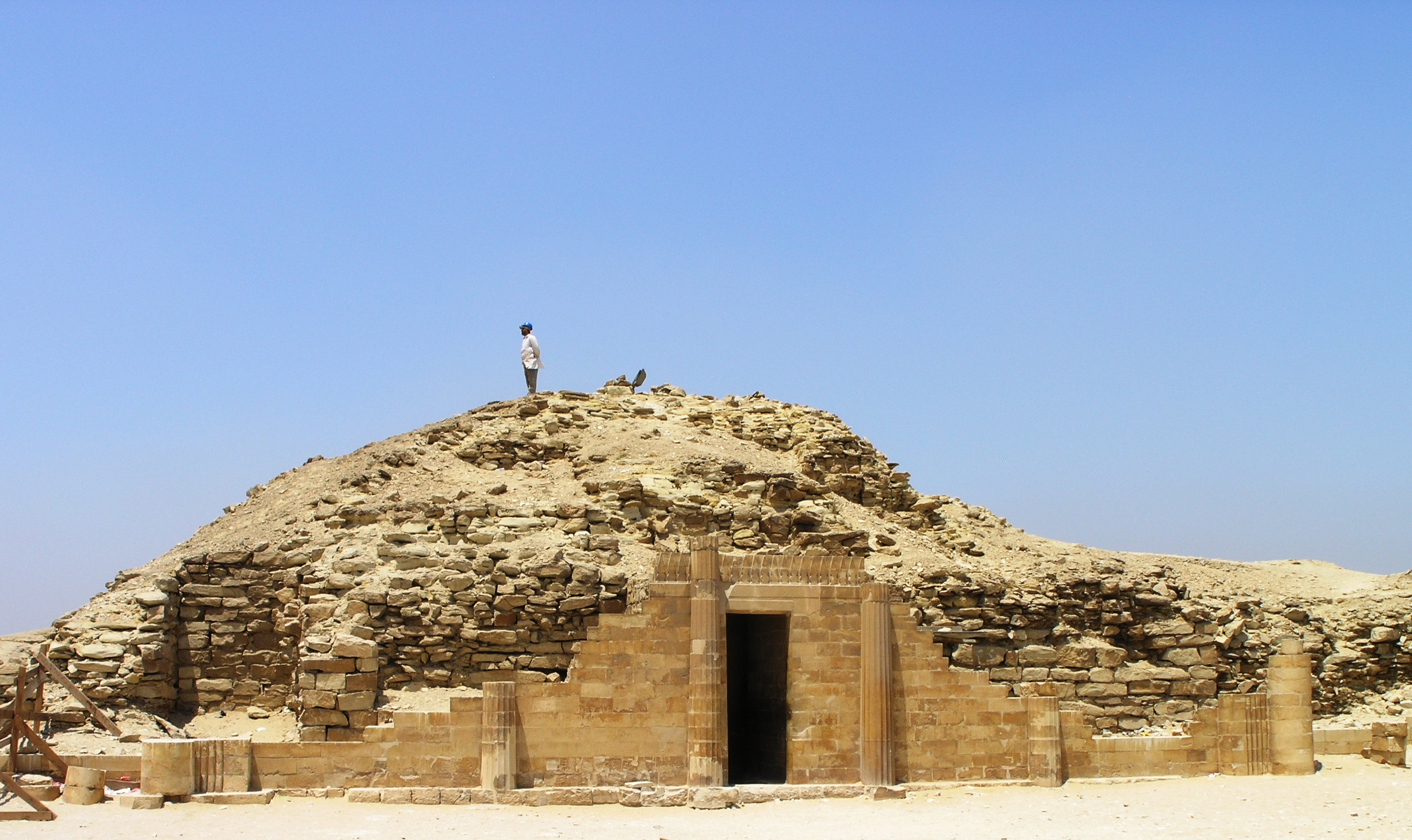 Saqqara - Pyramid of Djoser complex - Southern Pavilion